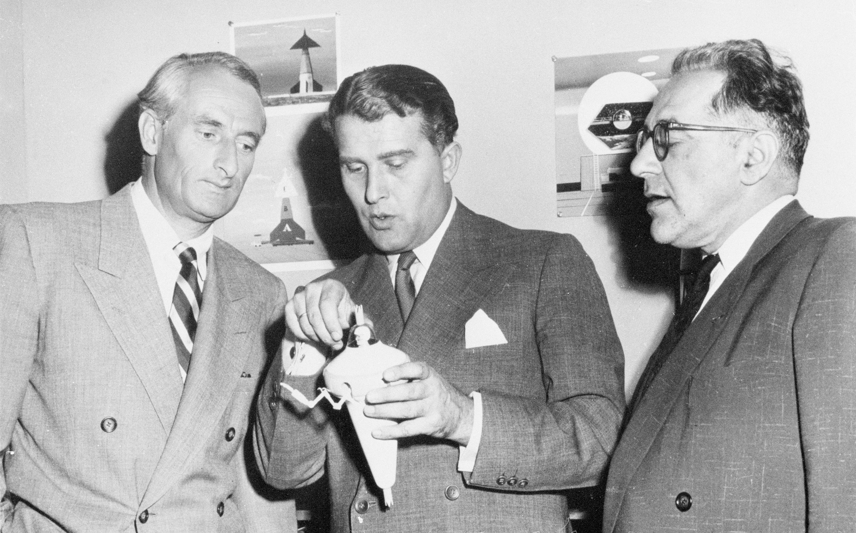 Dr. Wernher von Braun (center), then Chief of the Guided Missile Development Division at Redstone Arsenal, Alabama, discusses a "bottle suit" model with Dr. Heinz Haber (left), an expert on aviation medicine, and Willy Ley, a science writer on rocketry and space exploration.